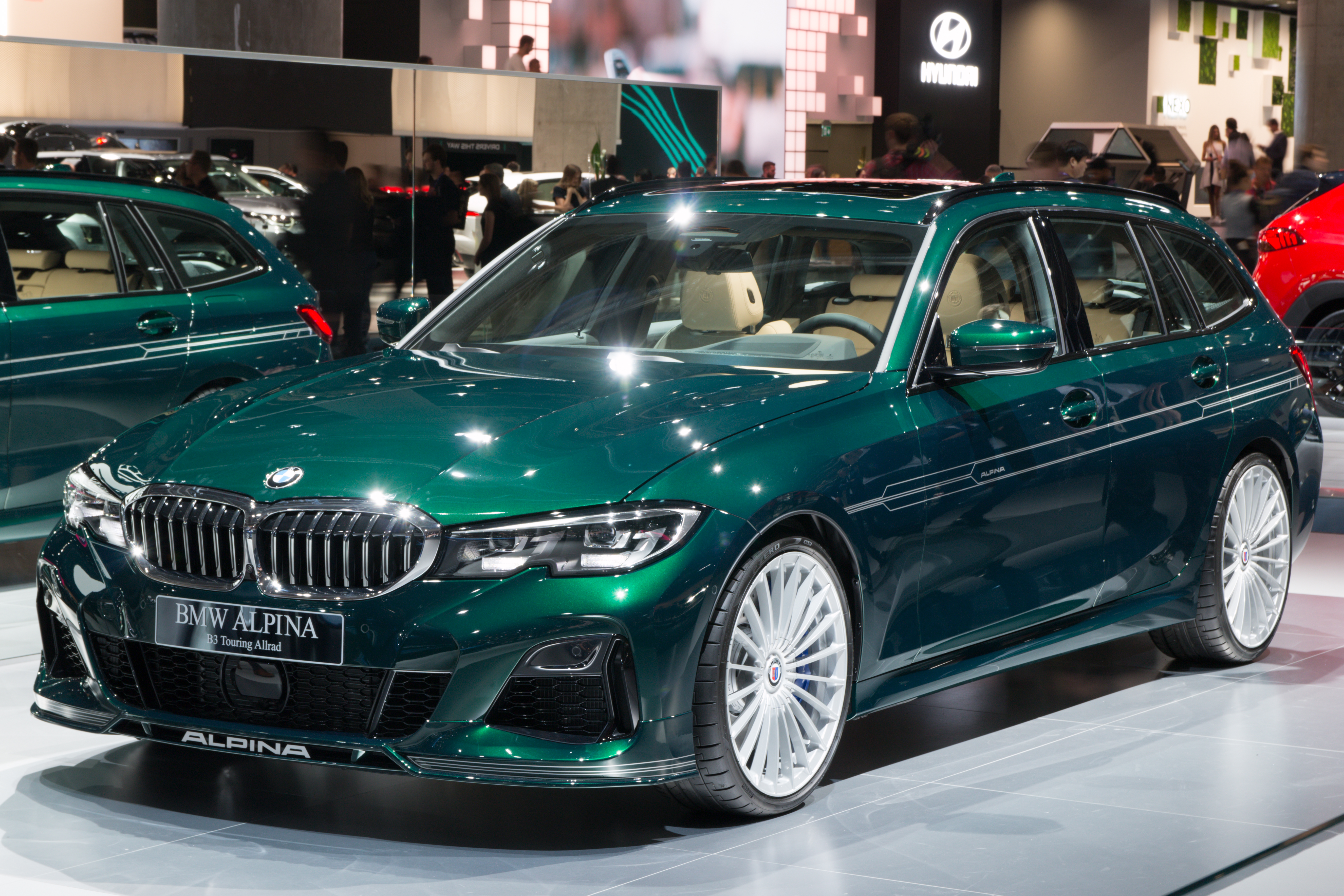 Alpina B3 Touring Allrad